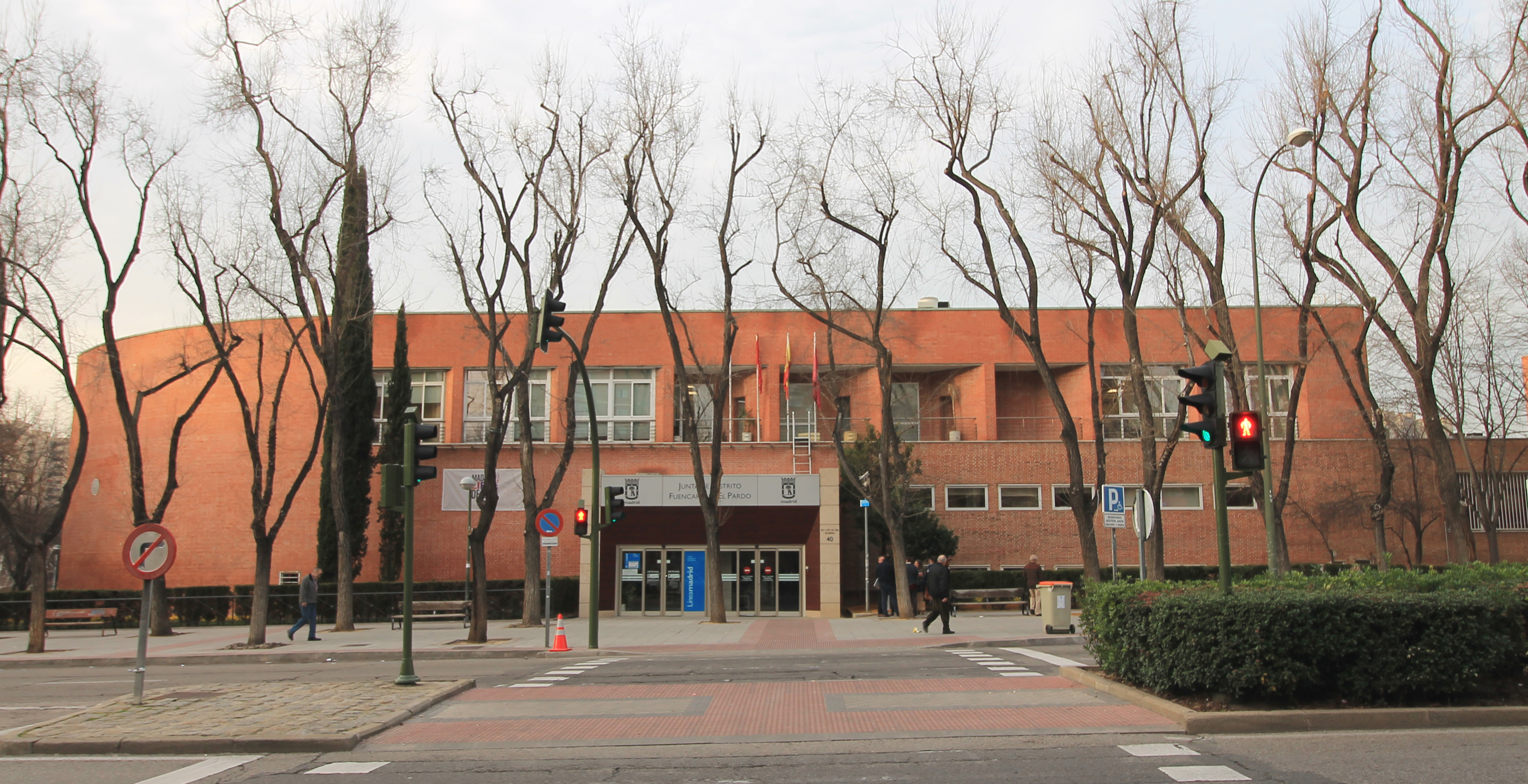 View of Fuencarral-El Pardo District Hall in Madrid (Spain).